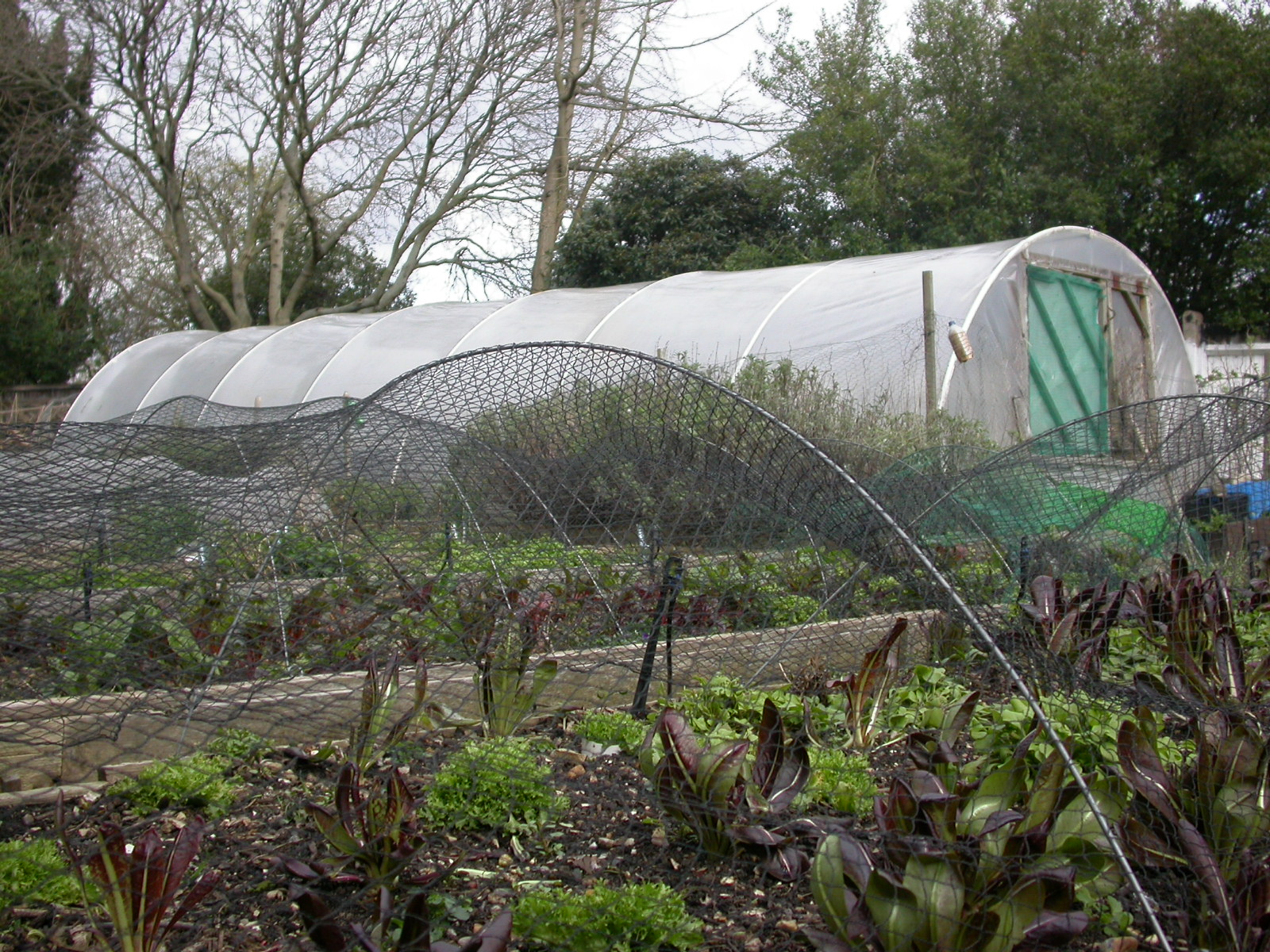 Salad lettuce cultivation at the Growing Communities‘ urban plot, in Springfield Park, Clapton, North London. This illustrates The Tracing Paper's post, London, Feed Yourself!